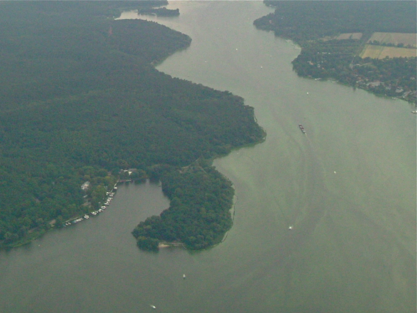 Schildhorn peninsula in the Havel river, Berlin, aerial photographs from the north